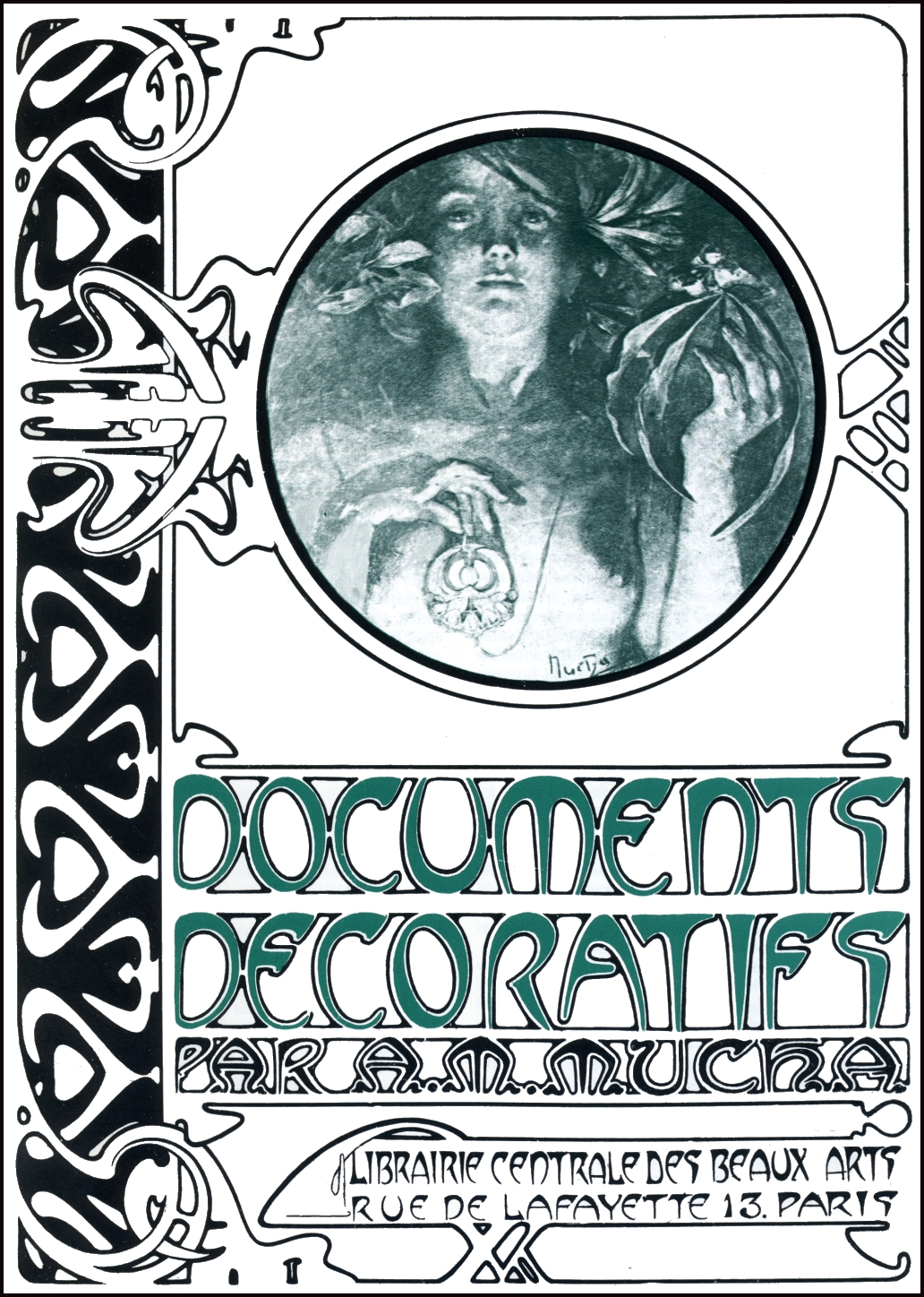 From Documents Decoratifs 1901